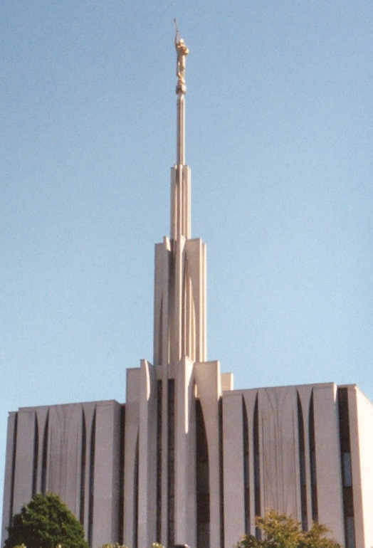 The Seattle Washington Temple of The Church of Jesus Christ of Latter-day Saints.